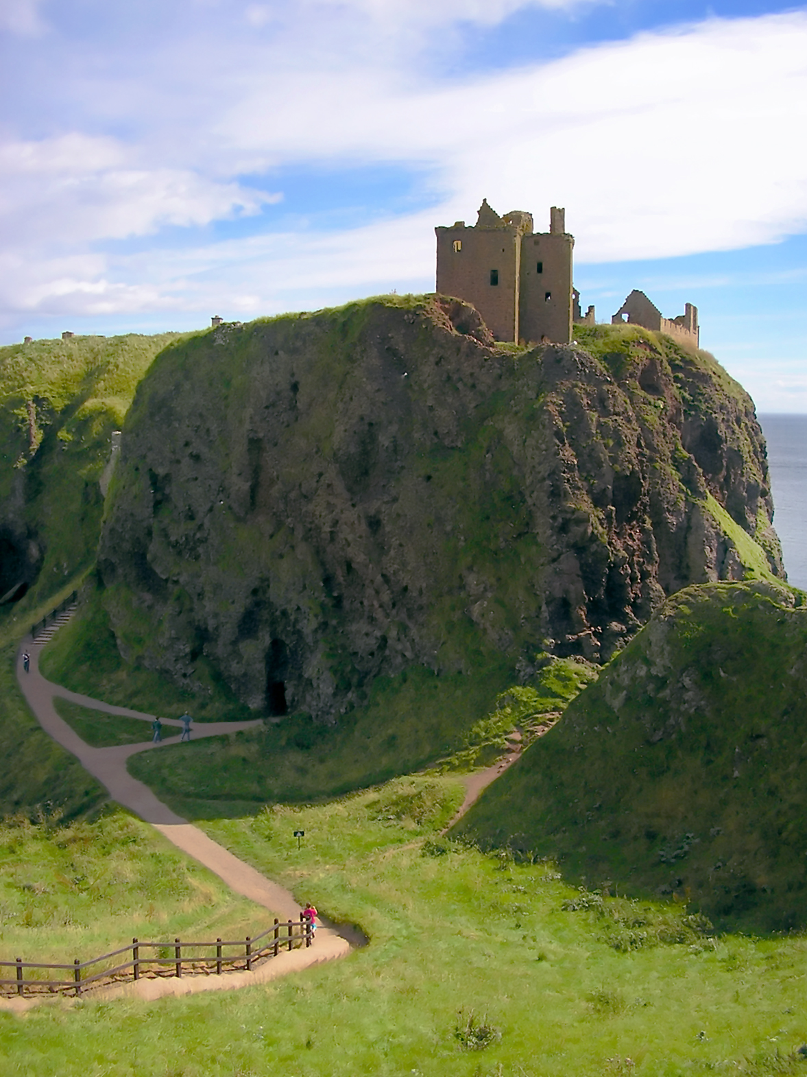 Dunnottar Castle - Scotland - Aberdeenshire. August 2007.